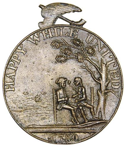 "Happy While United" was the slogan on a medal coined by the State of Virginia in 1780. First envisioned by Thomas Jefferson, the medal was minted and designed to be given to Indian signatories to the treaties Jefferson planned with the First Peoples of Virginia. Some of the bronze medals were given to General Joseph Martin, agent to the Cherokees, for distribution by Martin to Cherokee chiefs. The medal portrays a Virginia colonial sitting enjoying a peace pipe with a Native American. The obverse portrays a variation of the Virginia state seal of the state symbol standing triumphant over a slain enemy with the legend: "Rebellion to Tyrants is Obedience to God." The state's motto is 'Sic Semper Tyranus': 'And Thus Always to Tyrants.' File:Rebellion to Tyrants colonial medal Virginia.jpg#Summary